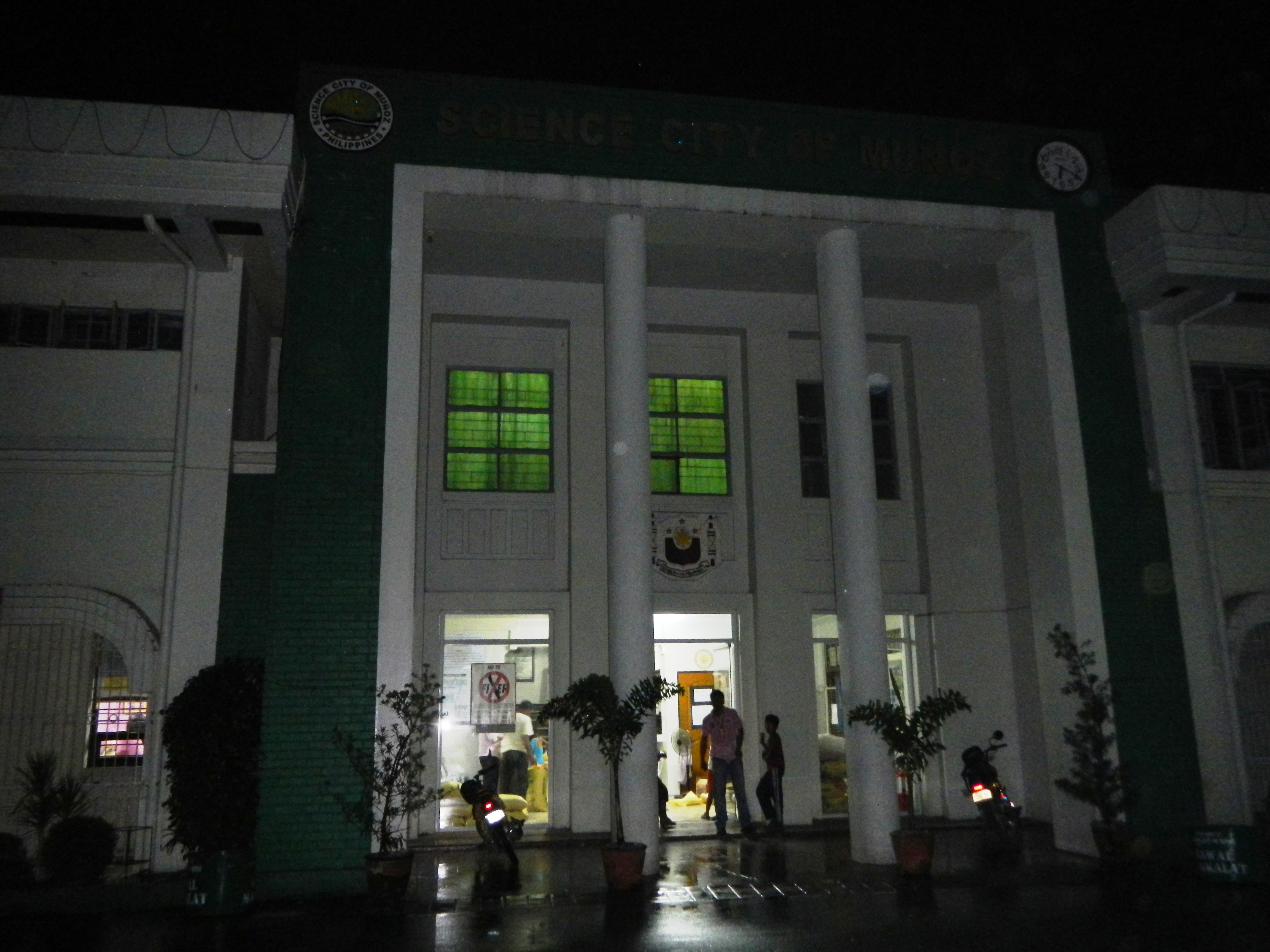 Town hall of Science City of Muñoz, Nueva Ecija[1] night portrait